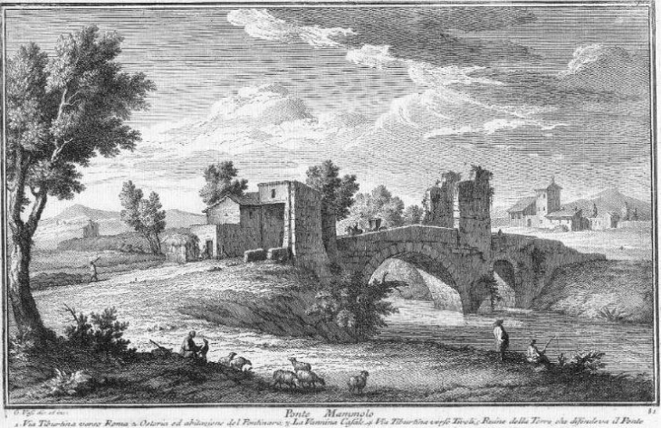 1) Via Tiburtina towards Rome; 2) Tavern and house of the custodian; 3) La Vannina (a farmhouse); 4) Via Tiburtina towards Tivoli; 5) Ruins of the tower protecting the bridge.